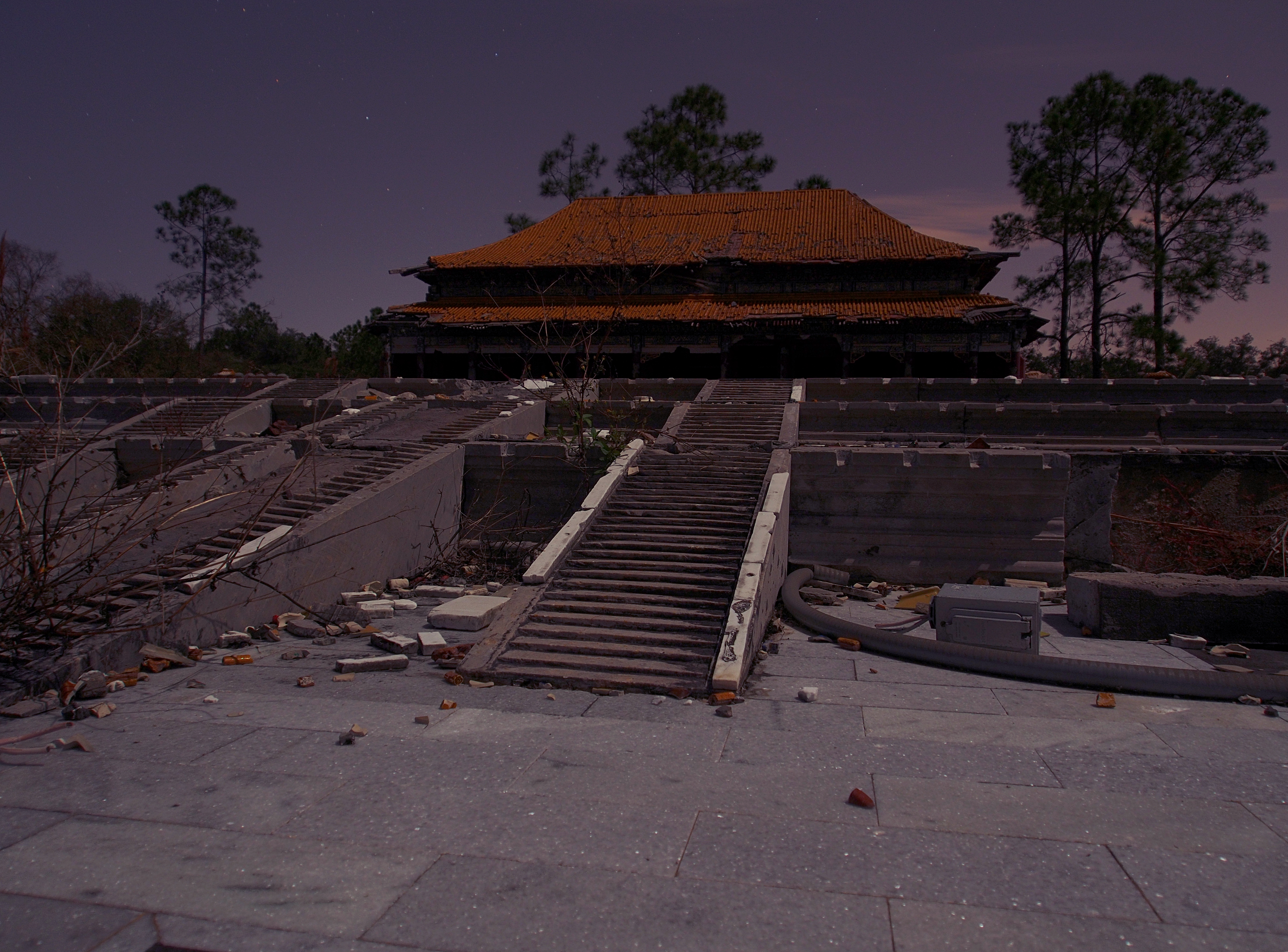 On a recent family trip to Orlando, I noticed that we were staying right around the corner from the abandoned theme park Splendid China. How could I pass up an opportunity to head in for some photos?! The park was built in 1993 at a cost of ~$100m, and closed 10 years later (2003). So here is what it looks like as it slowly rots in the Florida sun almost 10 years later... my blog